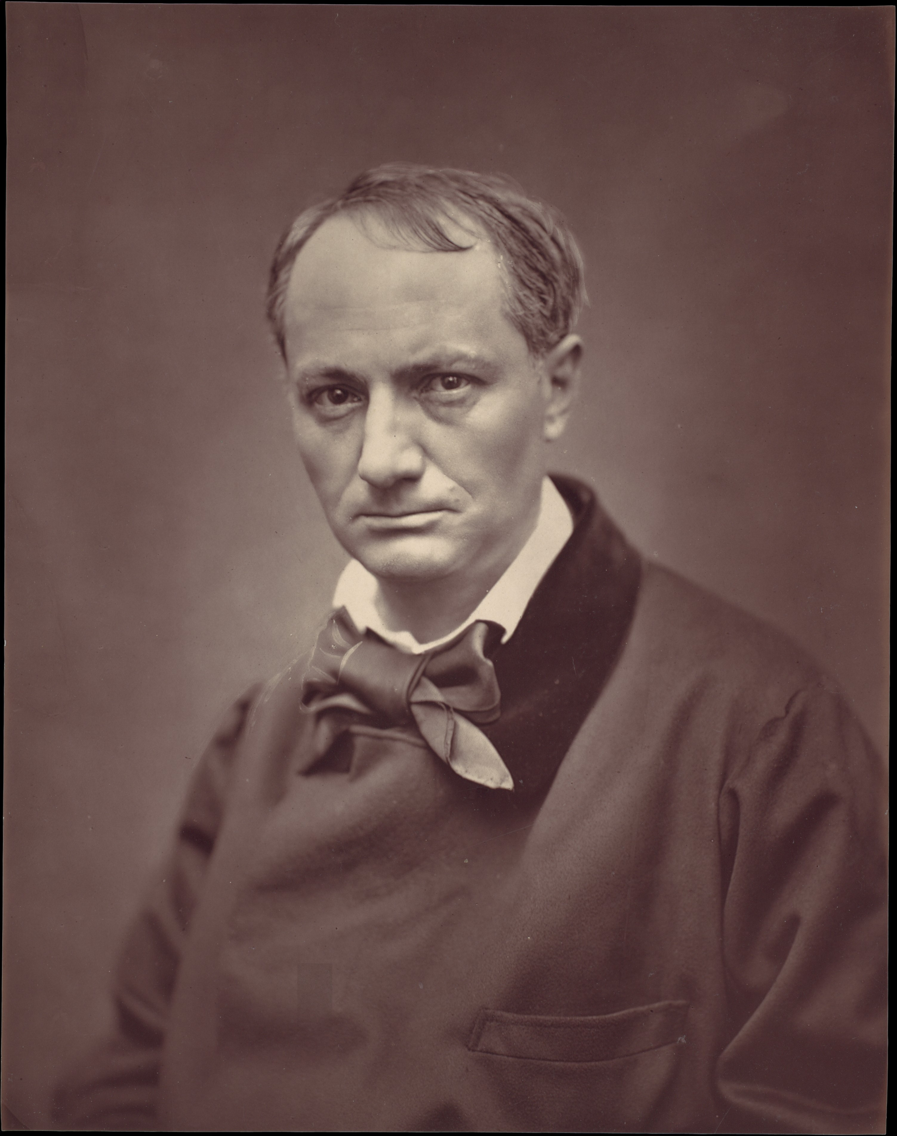 Woodburytype of a potrait of Charles Baudelaire by Étienne Carjat.